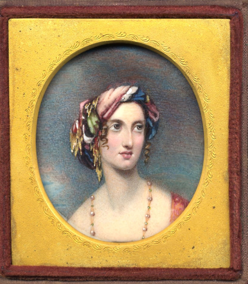 Miniature oil portrait of Harriet Taylor (nee Hardy), 1807-1858. Wife of John Stuart Mill and an important influence on his works, especially those on women's rights. IMAGELIBRARY/1350 Persistent URL